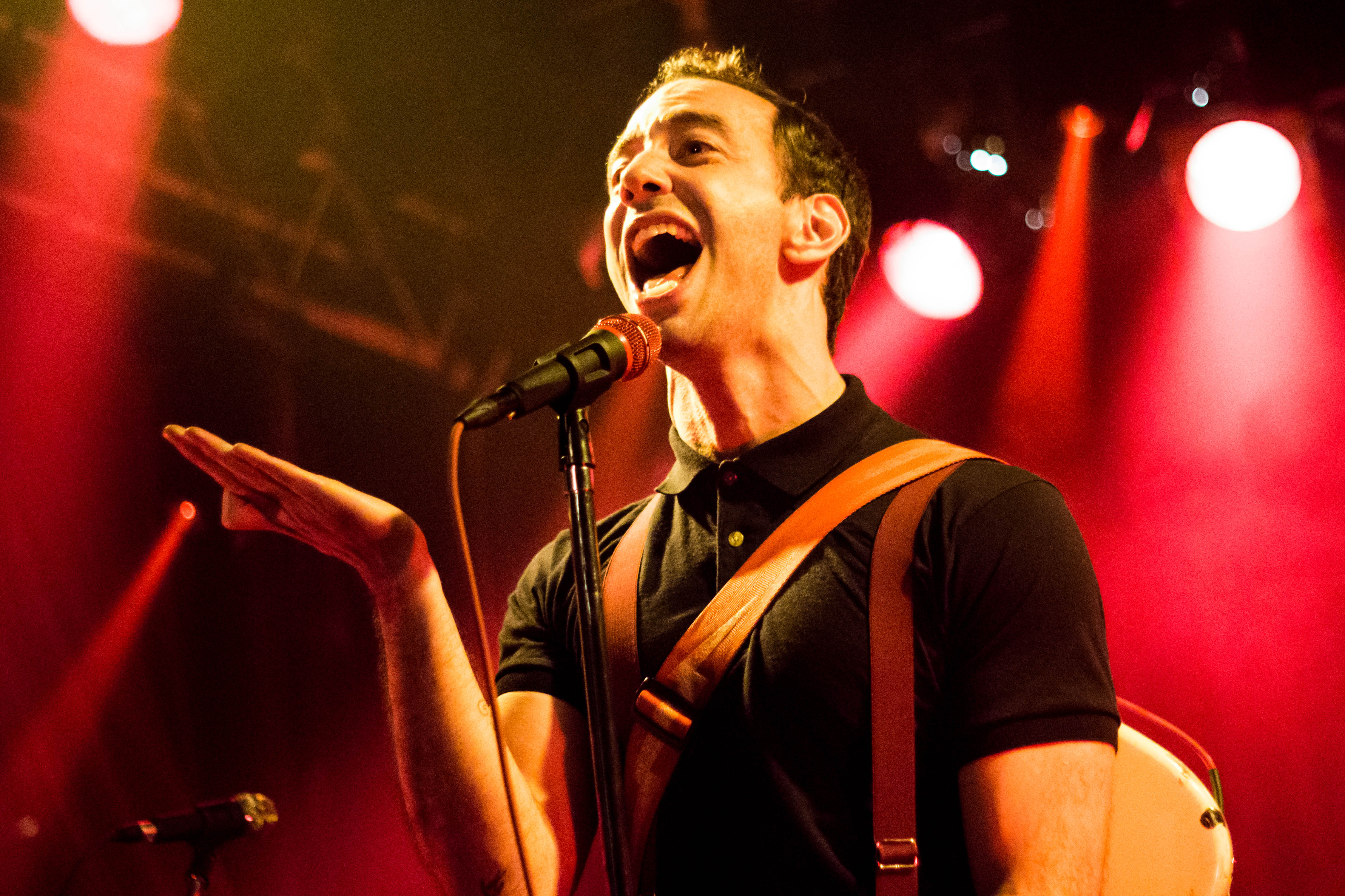 Albert Hammond, Jr. performing at The Double Door Chicago in 2013